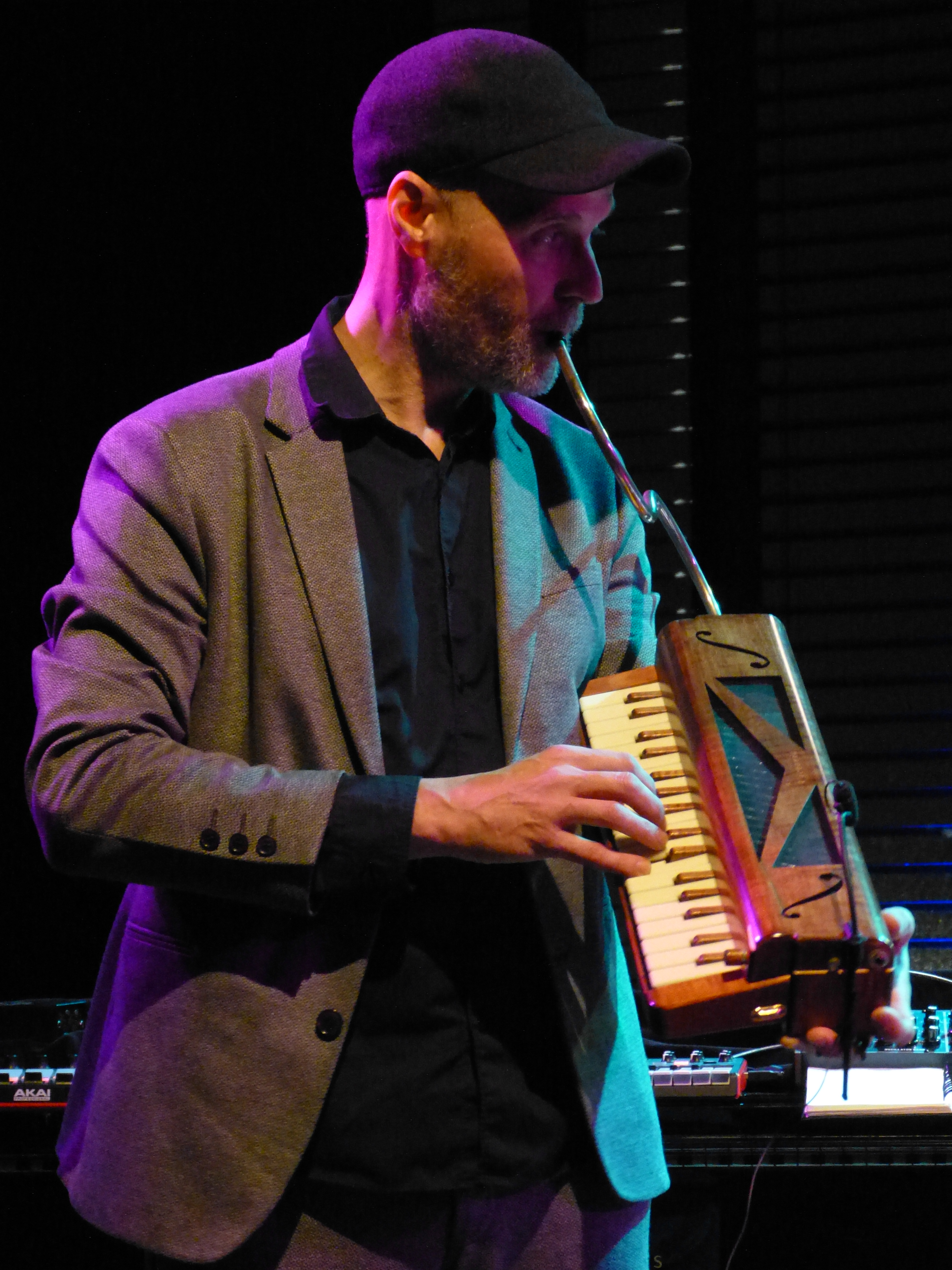 Martin Fondse (keys) in concert of "Adamas Circus" at Jazzfest Minifest of the Bimhuis in Amsterdam, The Netherlands, January 4th, 2020 (together with Felix Schlarmann (dr) and Modar Salama (perc))